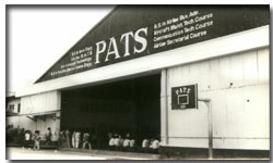 pats old campus